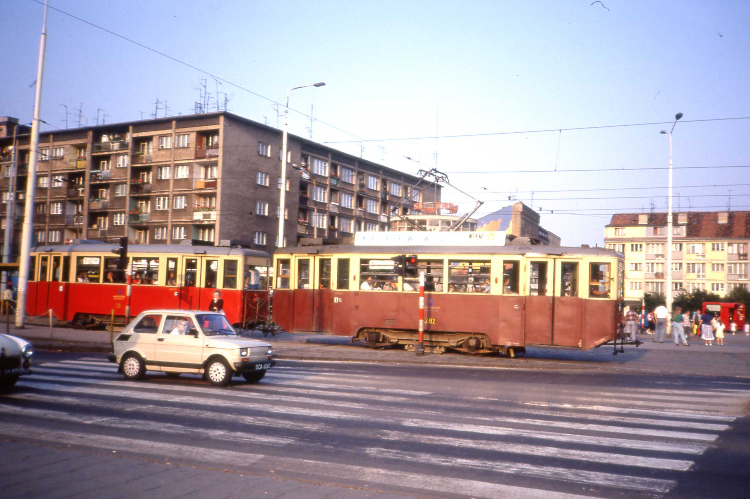 Konstal 4N trams and a Polski Fiat 126p in Szczecin, August 1990.